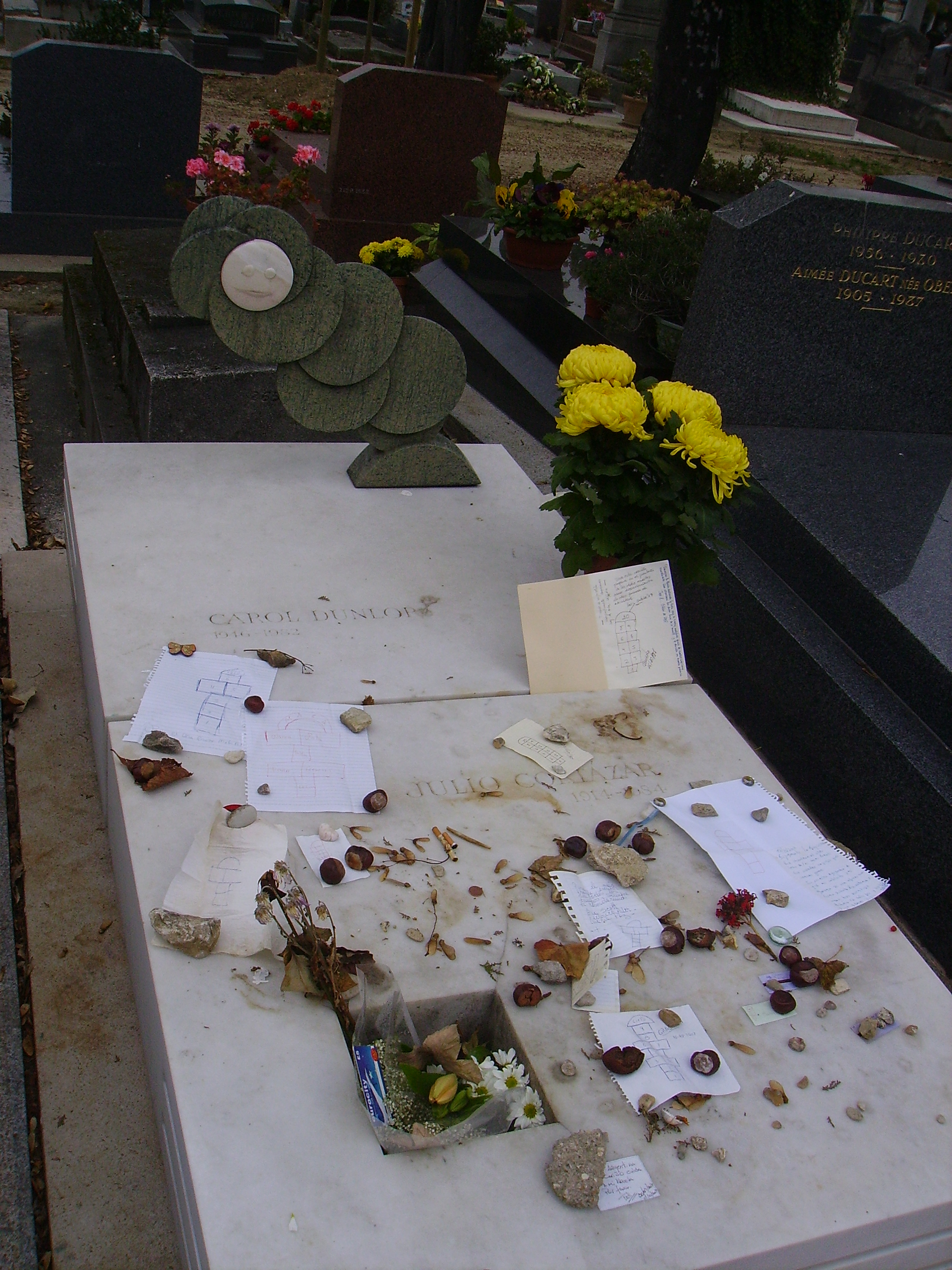 Julio Cortázar's gravestone at Montparnassse Graveyard, Paris, with Hopscotchs designed by his admirers.